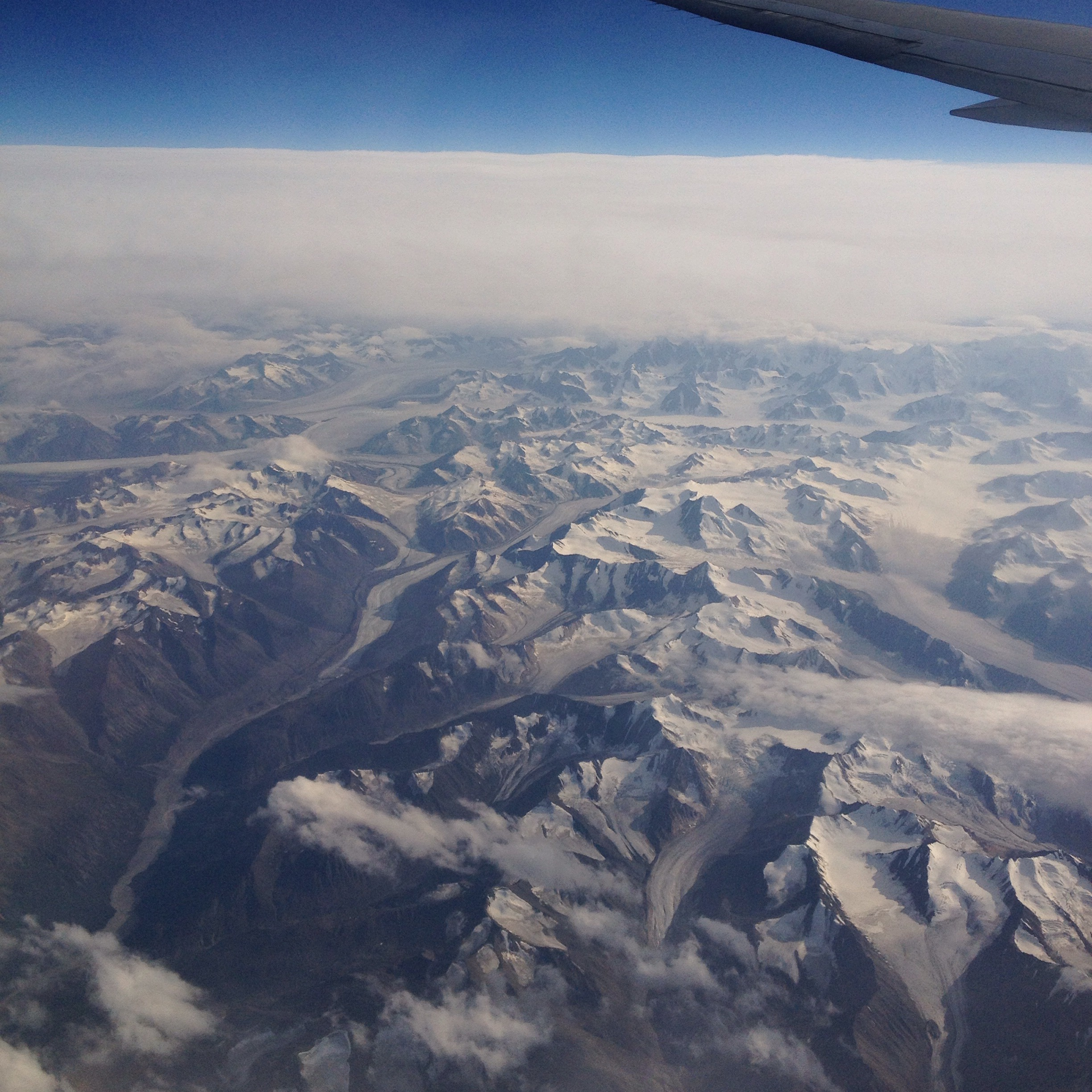 An aerial shot of Kluane National Park's glaciers, icefields, and small mountains.